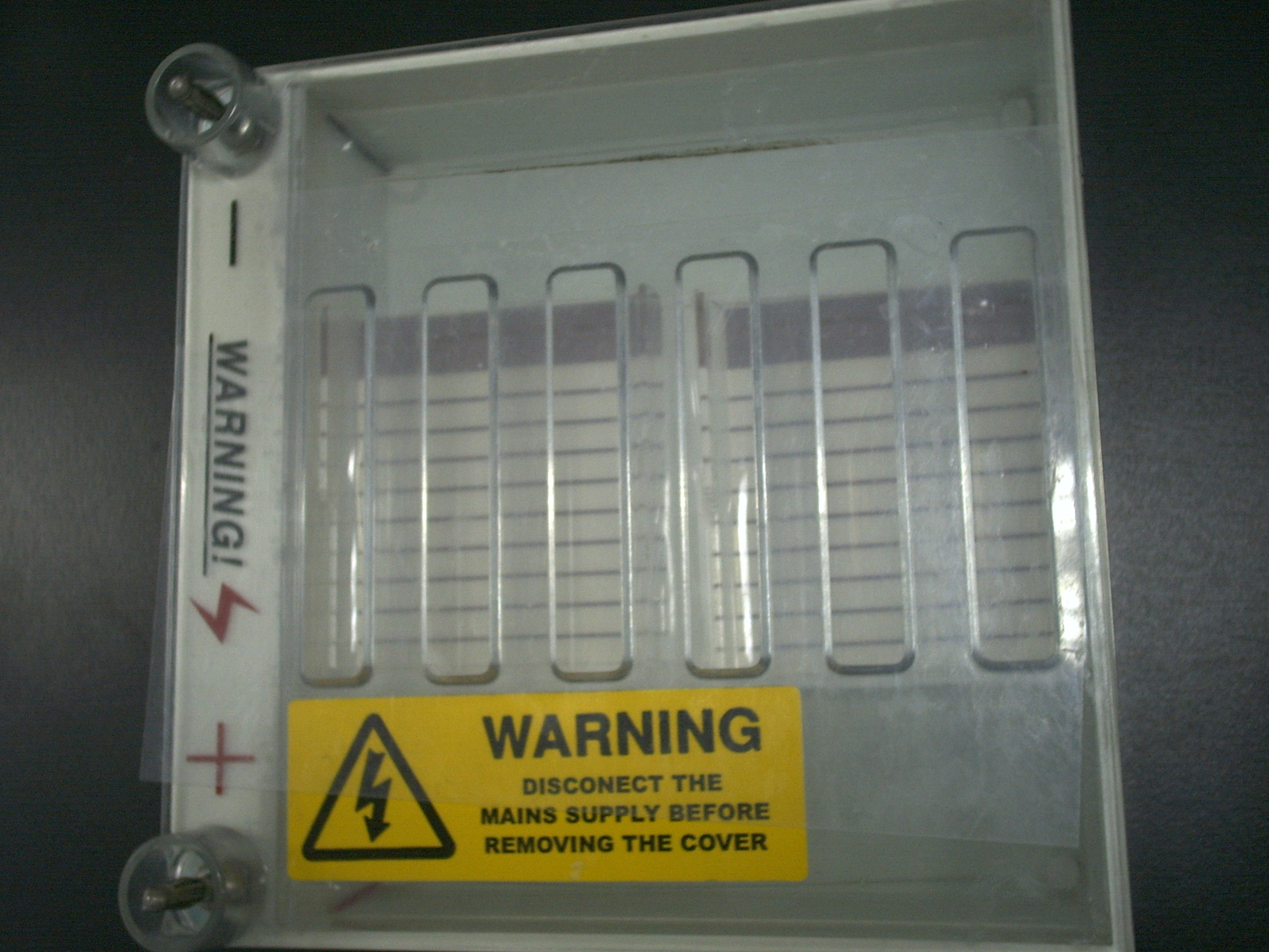 Electrophoresis